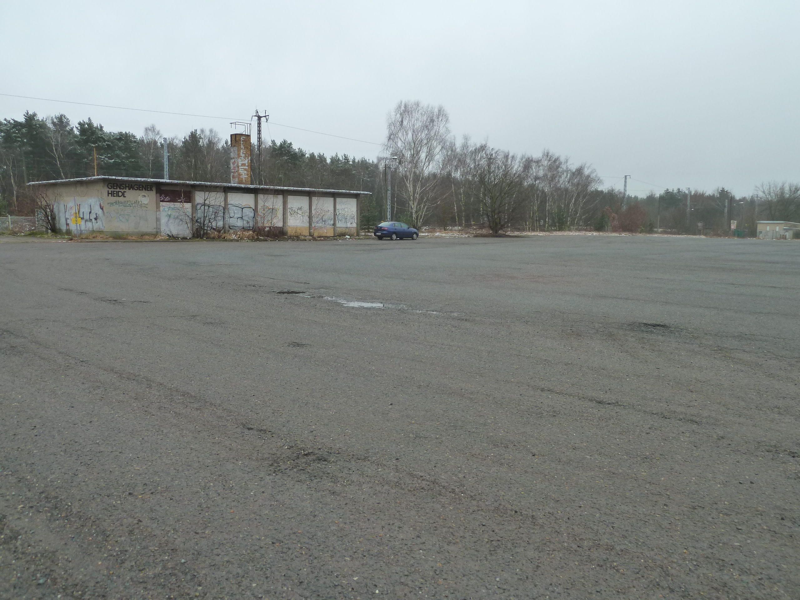 Station Genshagener Heide, place in front of station